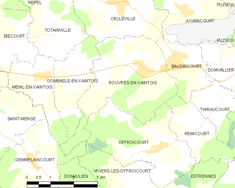 Map of French municipality Rouvres-en-Xaintois